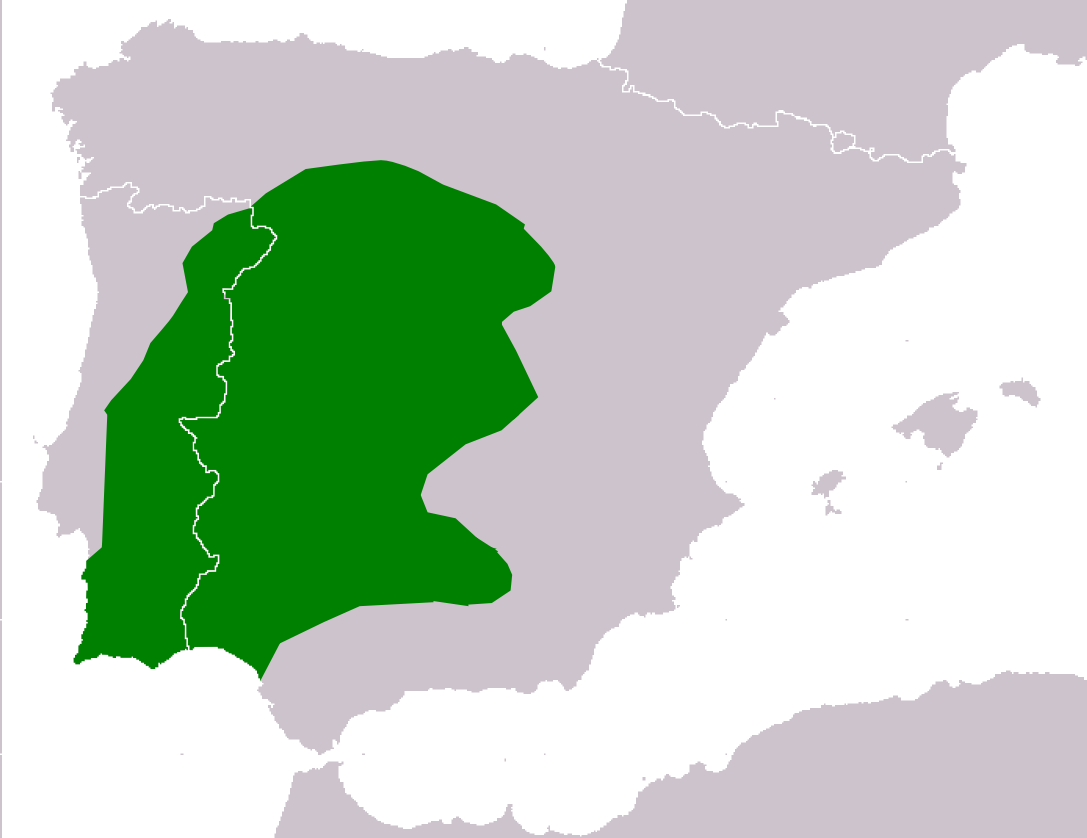 Alytes cisternasii range map.